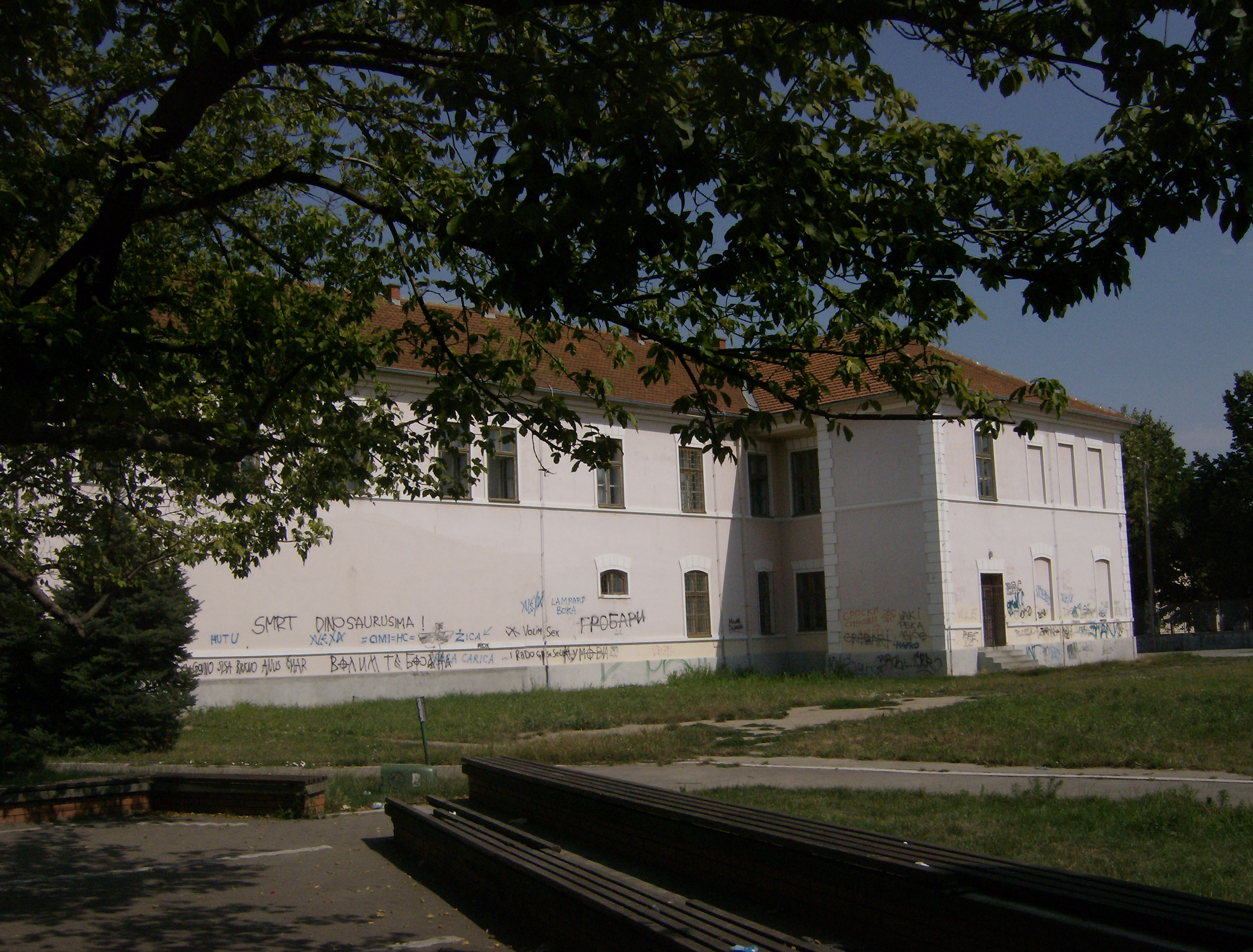 Today's look of a gymnasium building, a view from the yard